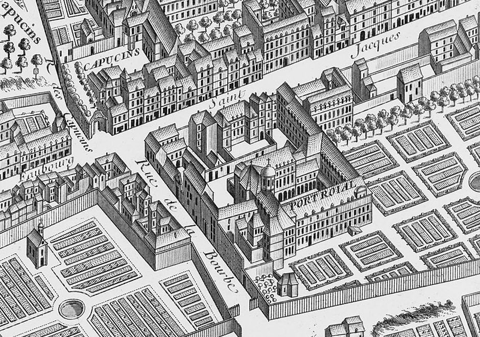 Abbaye de Port-Royal de Paris, 1739.